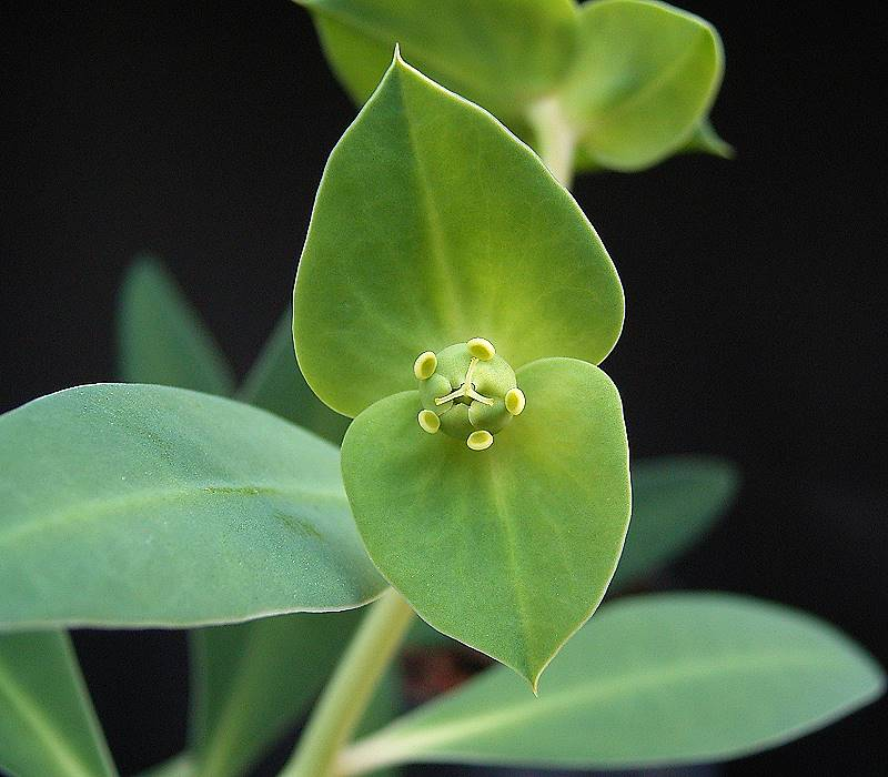 Euphorbia platycephala